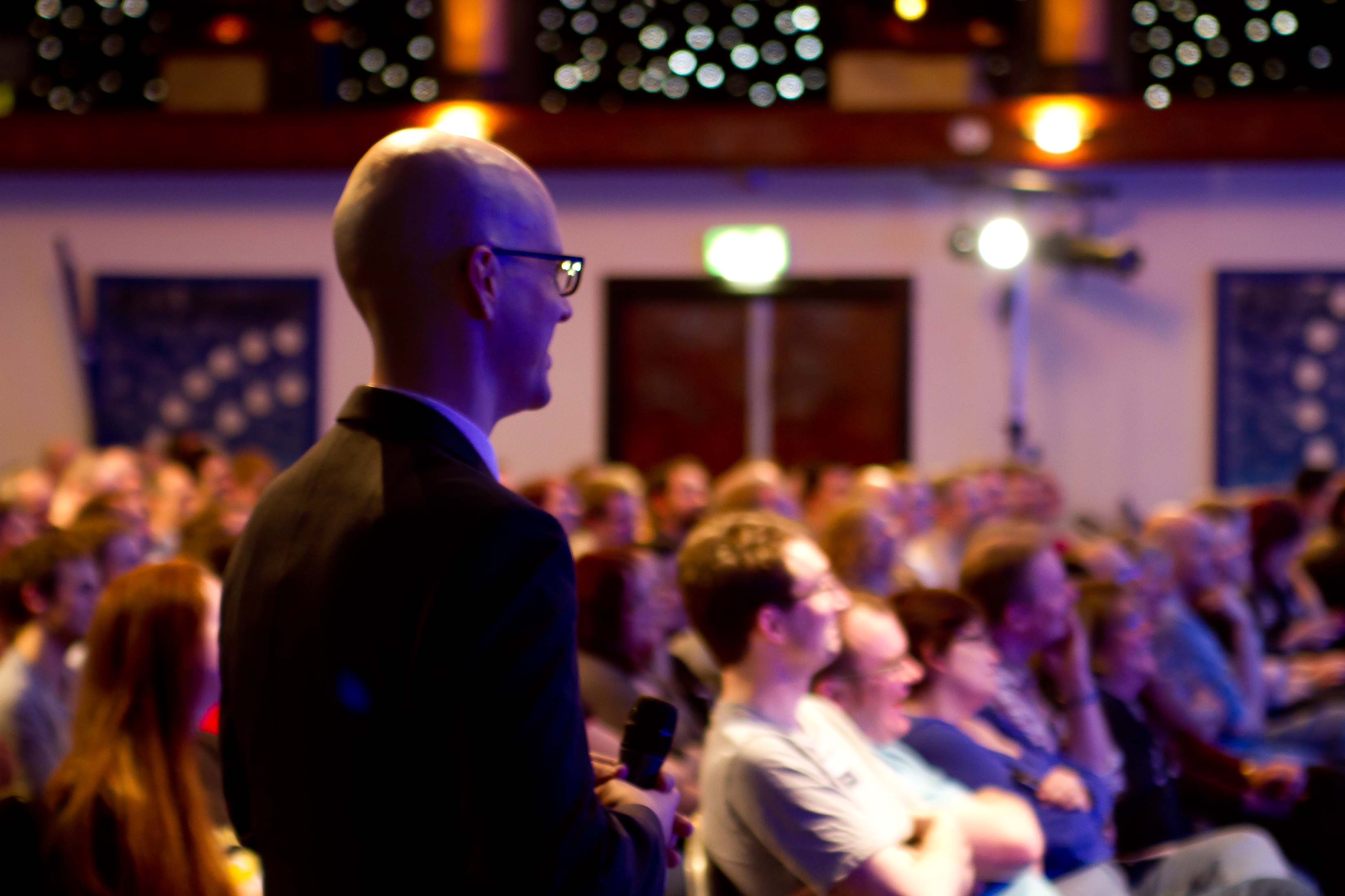 George Hrab at QED 2011. George was MC of the 2 day event.